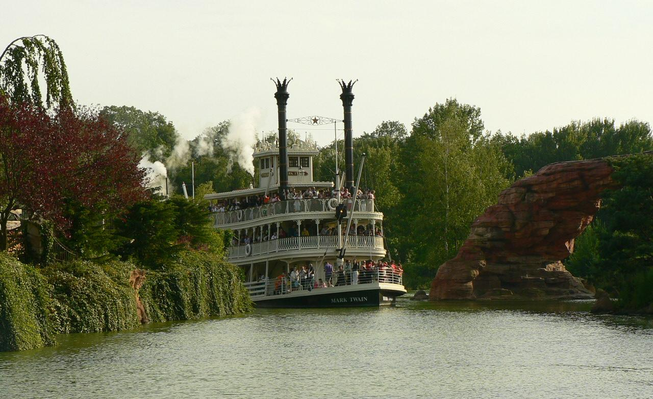 Mark Twain Riverboat au Disneyland Park de Disneyland Resort Paris (France)